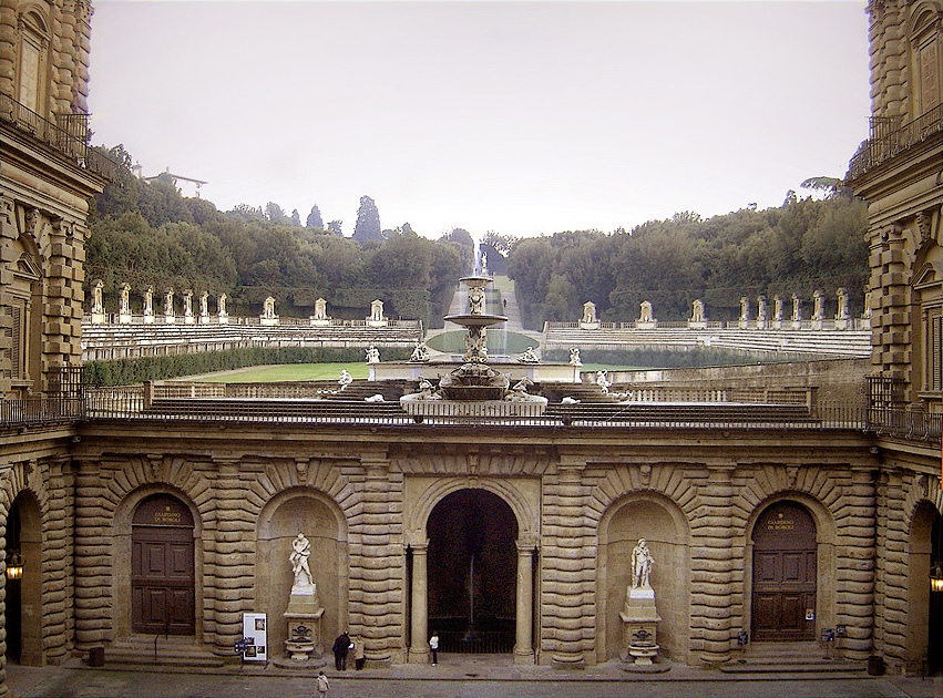 Boboli Garden seen from Palazzo Pitti, Florence.